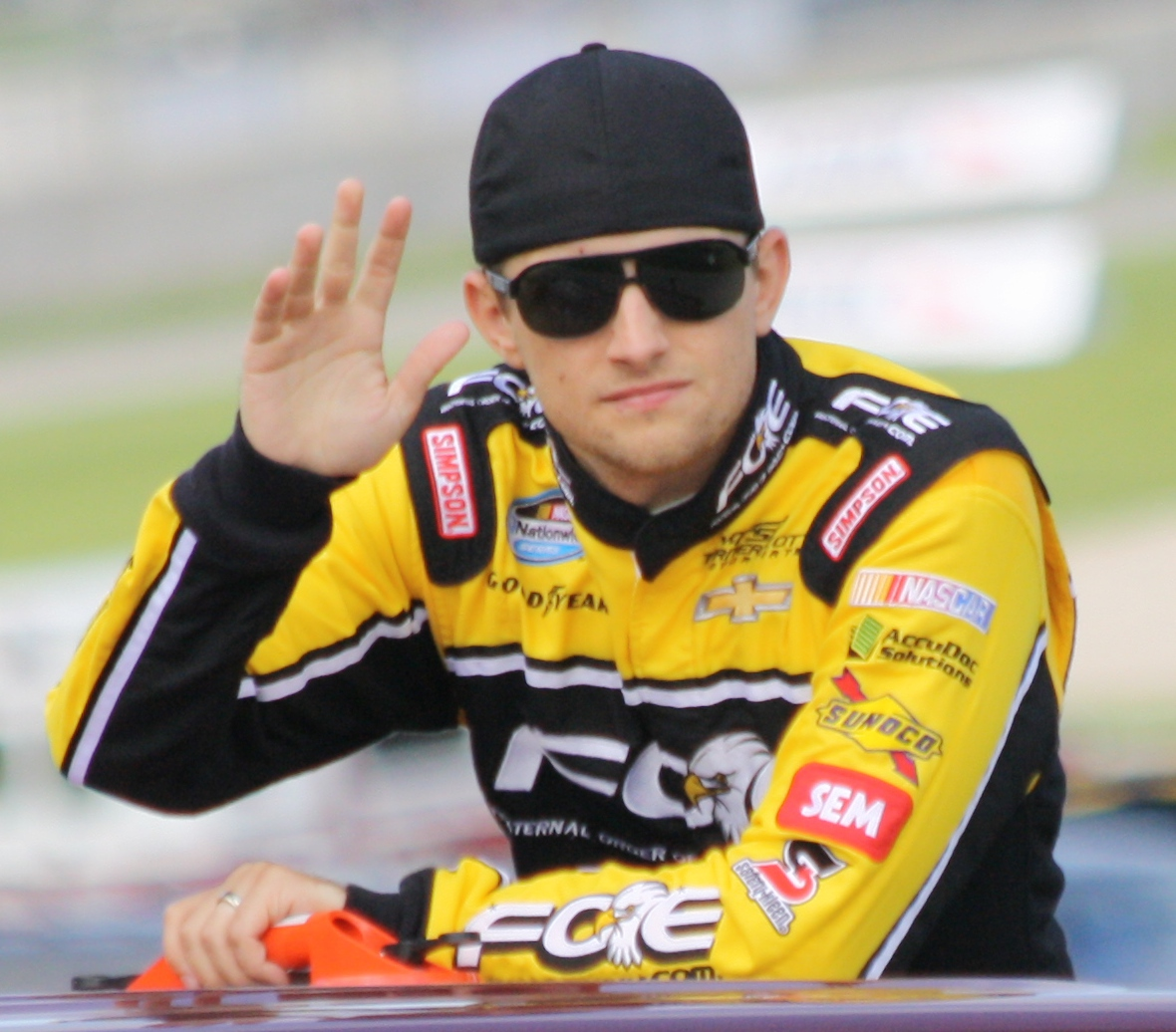 NASCAR driver James Buescher at the 2013 Johnsonville Sausage 200 Nationwide Series race at Road America.